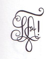 Sign of the Swiss fraternity Artusia Aarau